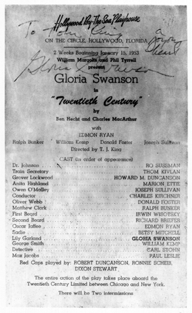 Scan of autograph program from play ditected by T.J. King